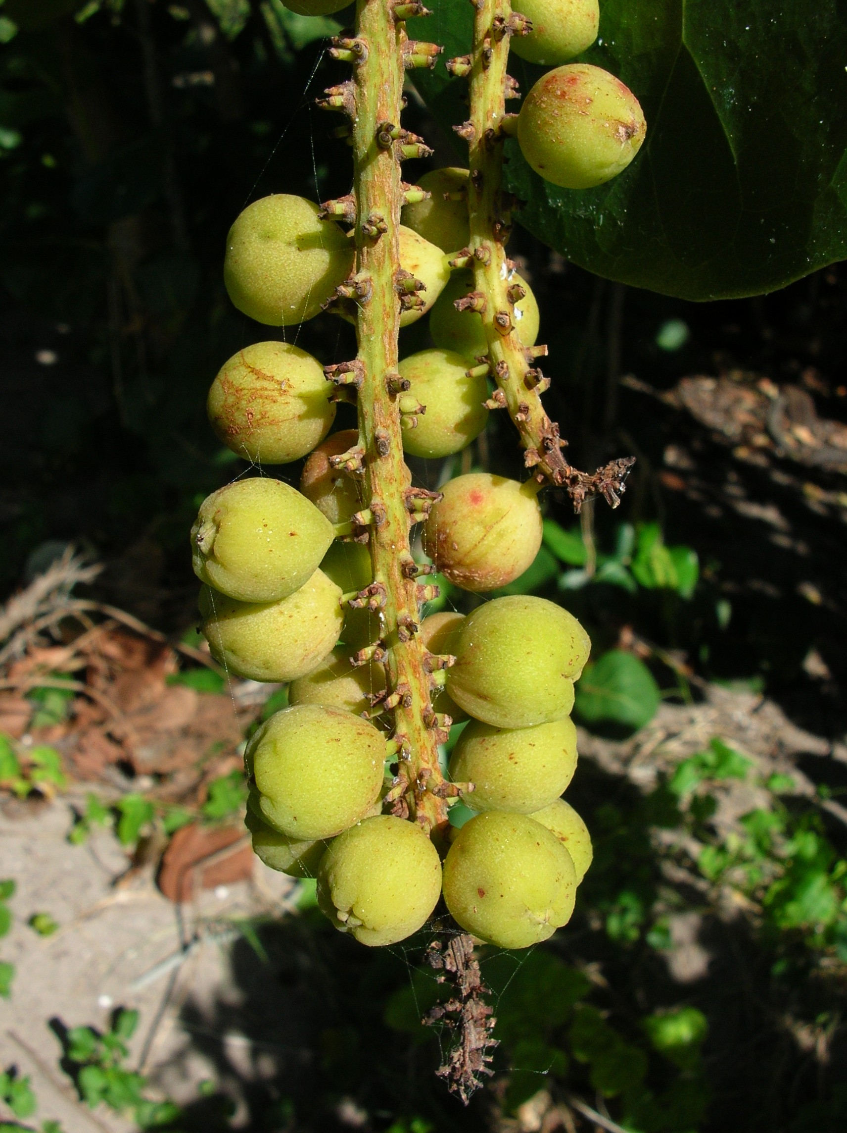 Coccoloba uvifera (fruit). Location: Oahu, Mokuauia